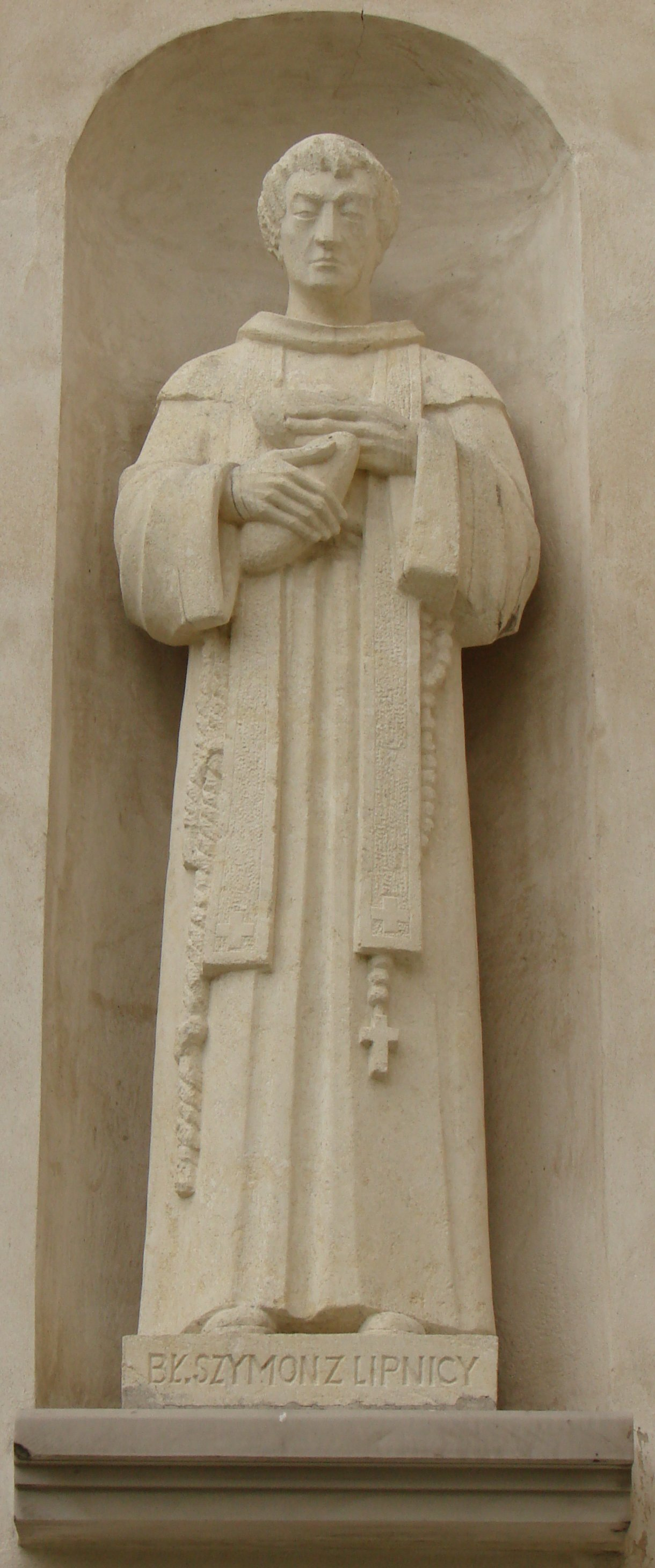 Sculpture of Szymon z Lipnicy from Saint Joseph's church in Muszyna, Poland